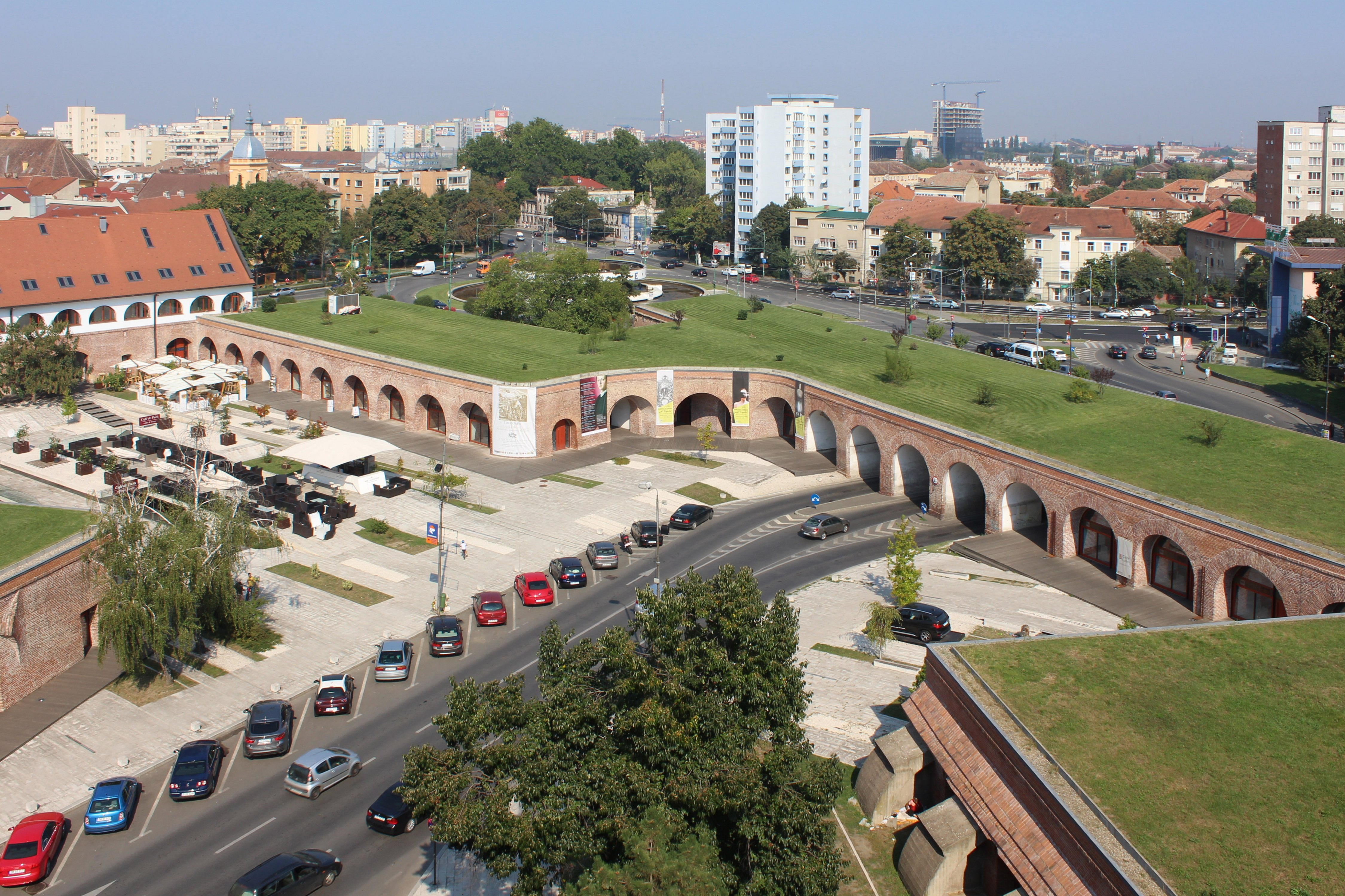 Theresia Bastion, Timisoara, Romania